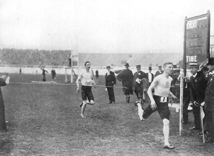 3200 metre steeplechase final at the 1908 Summer Olympics